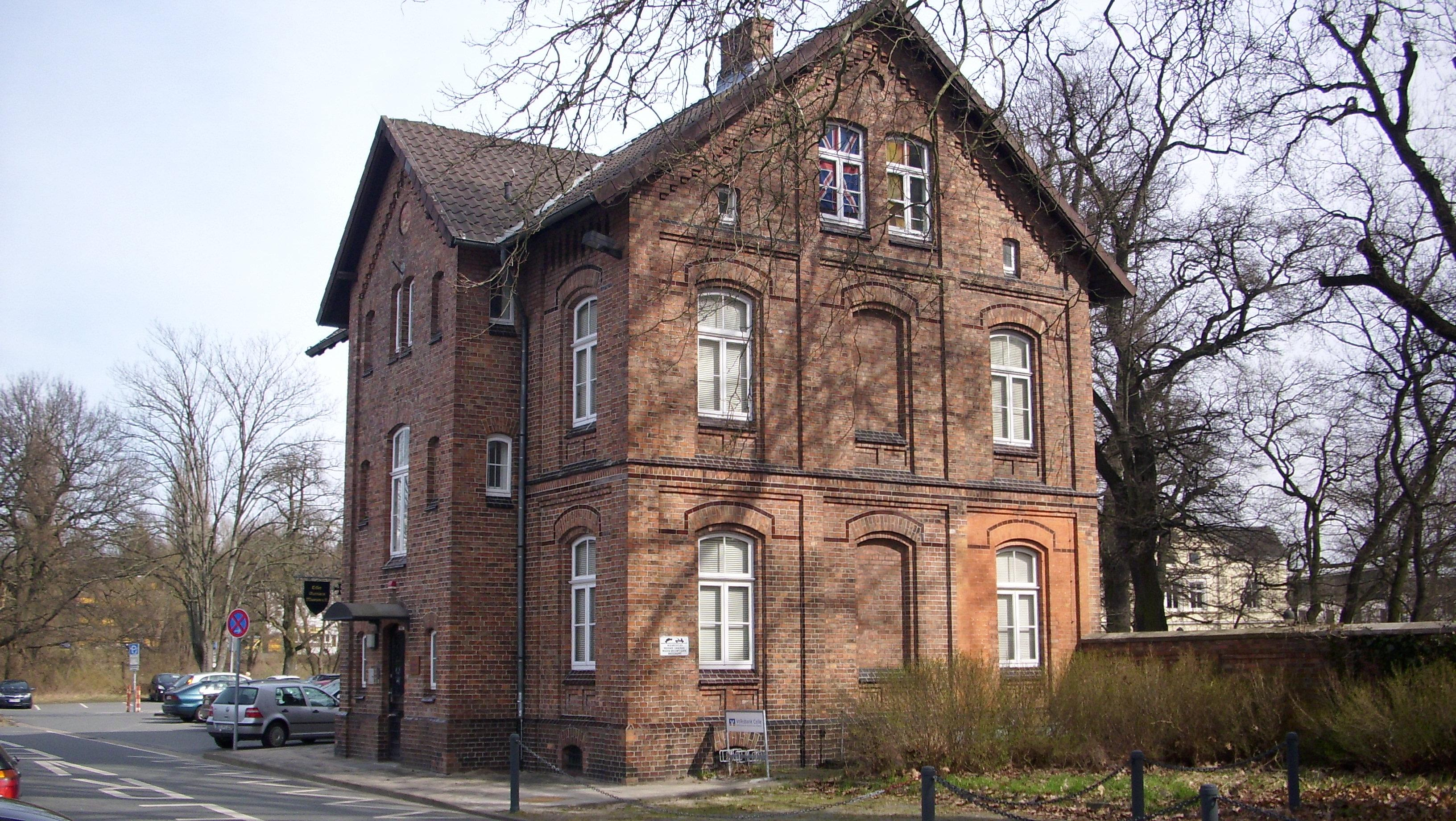 Garrison Museum Celle